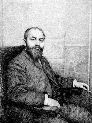 Portrait of French Prime Minister Léon Bourgeois (1851-1925) by François Barré. Etching.